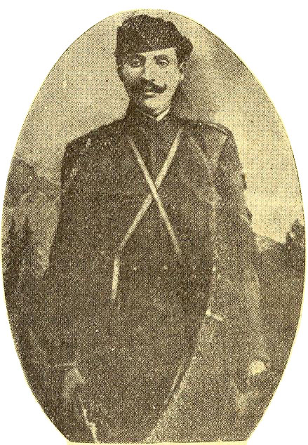 Portrait of IMARO Voivoda Pando Sidov